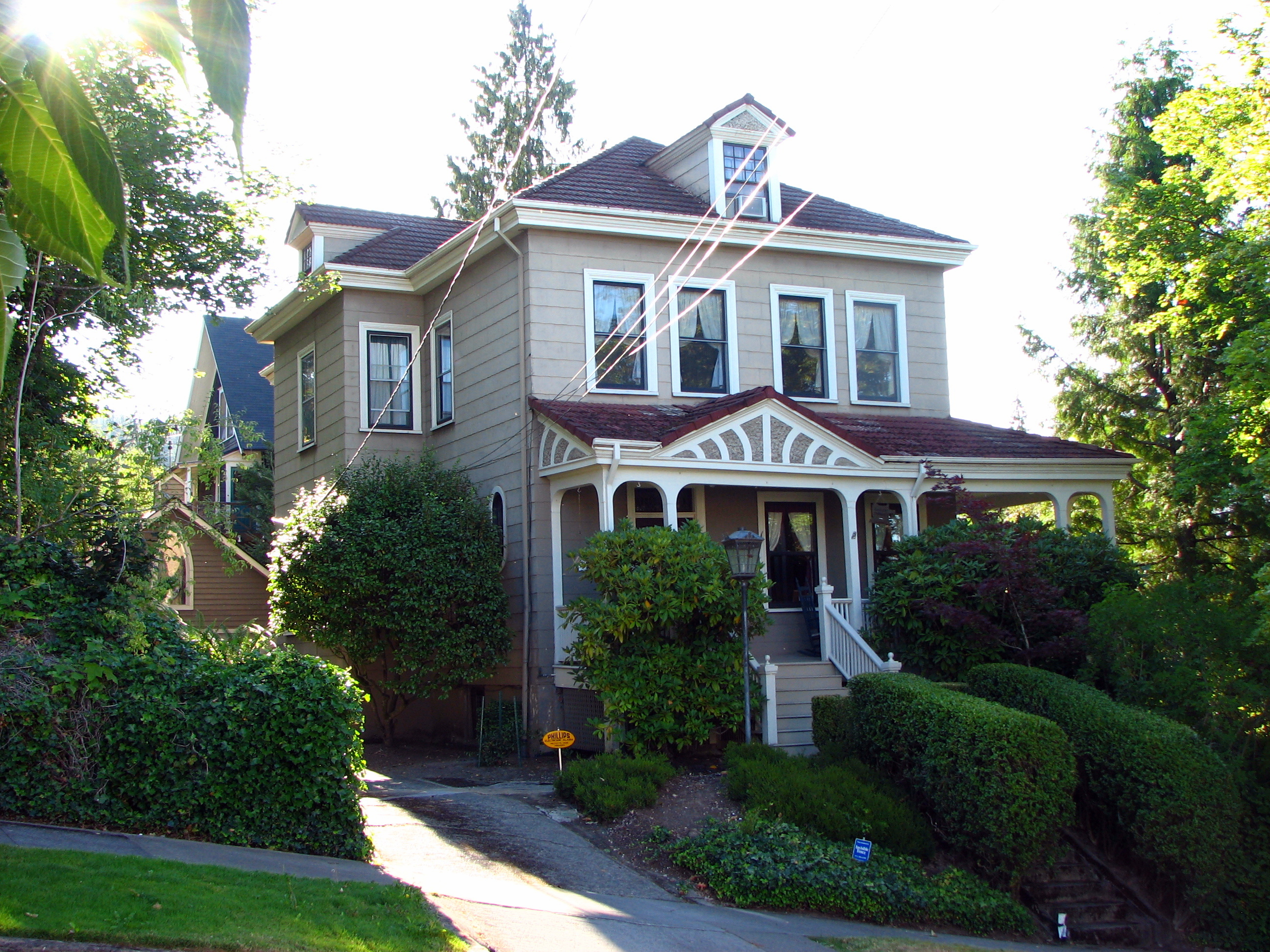 The historic Clarke–Mossman House (built 1893), located at 1625 Northwest 29th Avenue in Portland, Oregon, United States, is listed on the US National Register of Historic Places.